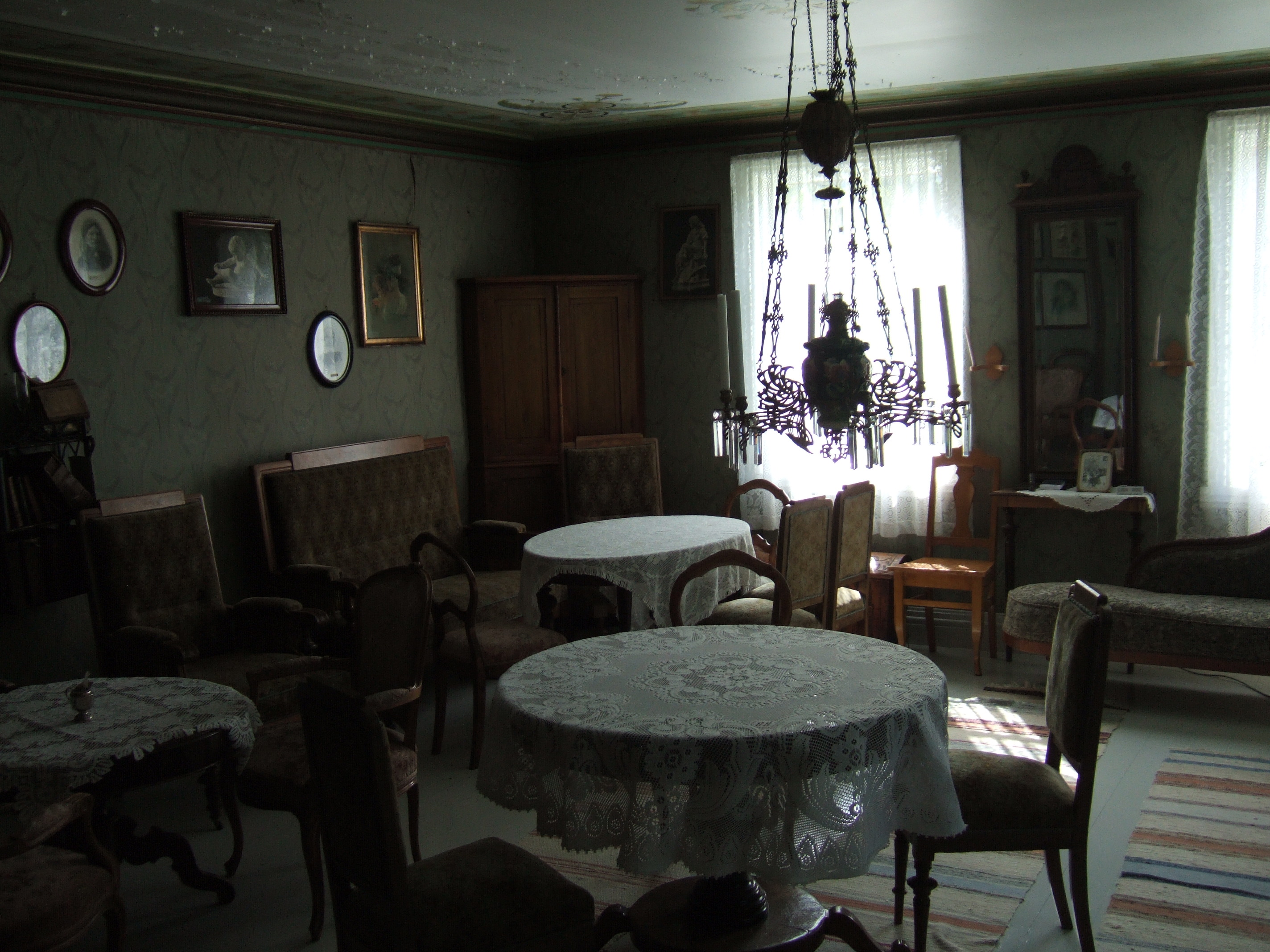 The building and rooms are now part of the local history museum for Saltdal.